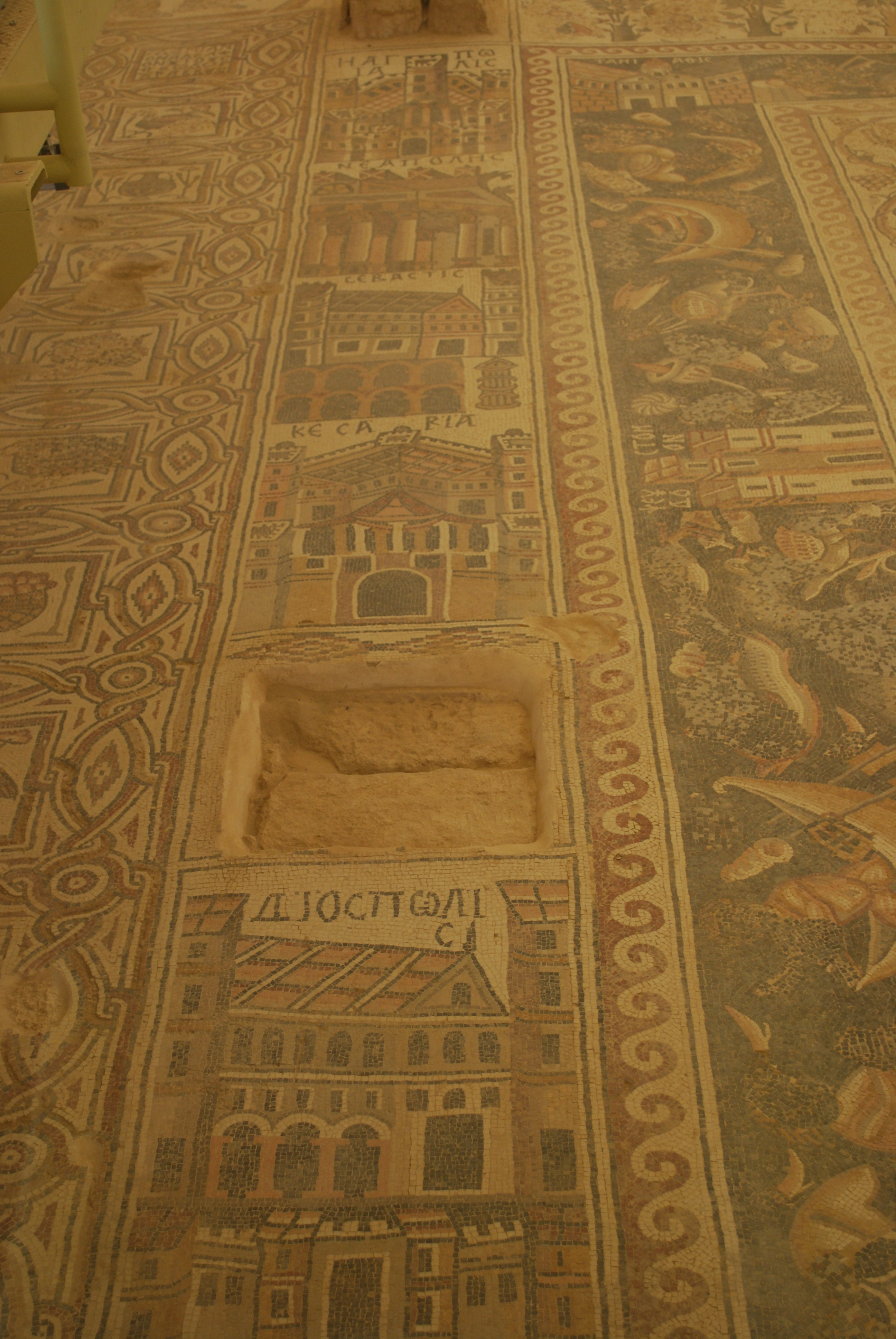 Um er-Rasas (Kastrom Mefa'a) (Jordan)